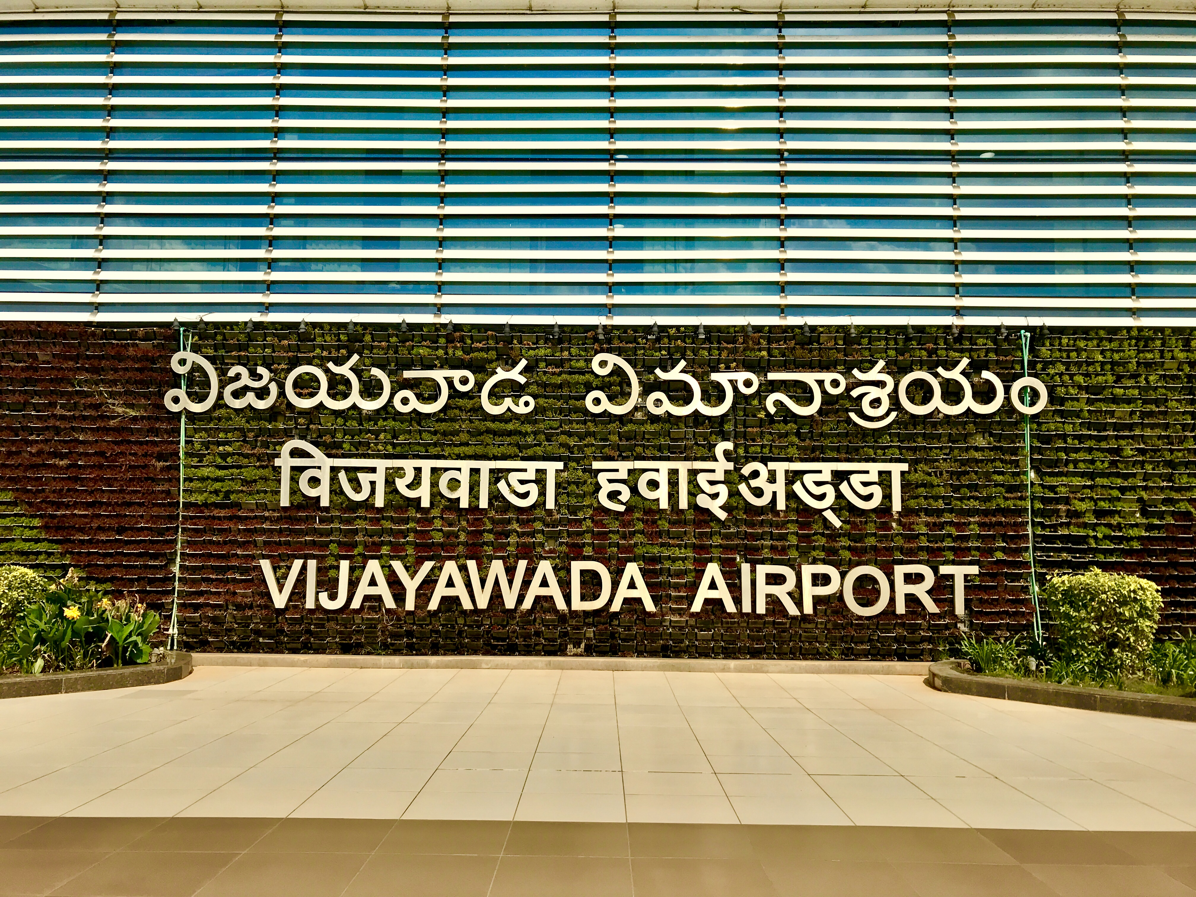 Vijayawada Airport as on November 2018